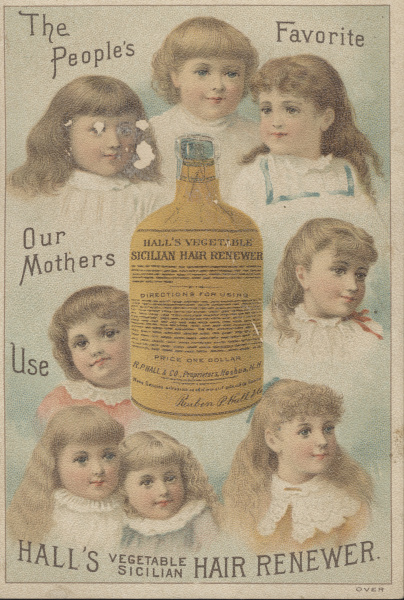 Persistent URL: Subject (TGM): Children; Girls; Hair preparations; Patent medicines; Hairstyles; Drugstores; Pharmacists; Grooming; Hygiene; Keywords: Hall's Vegetable Sicilian Hair Renewer